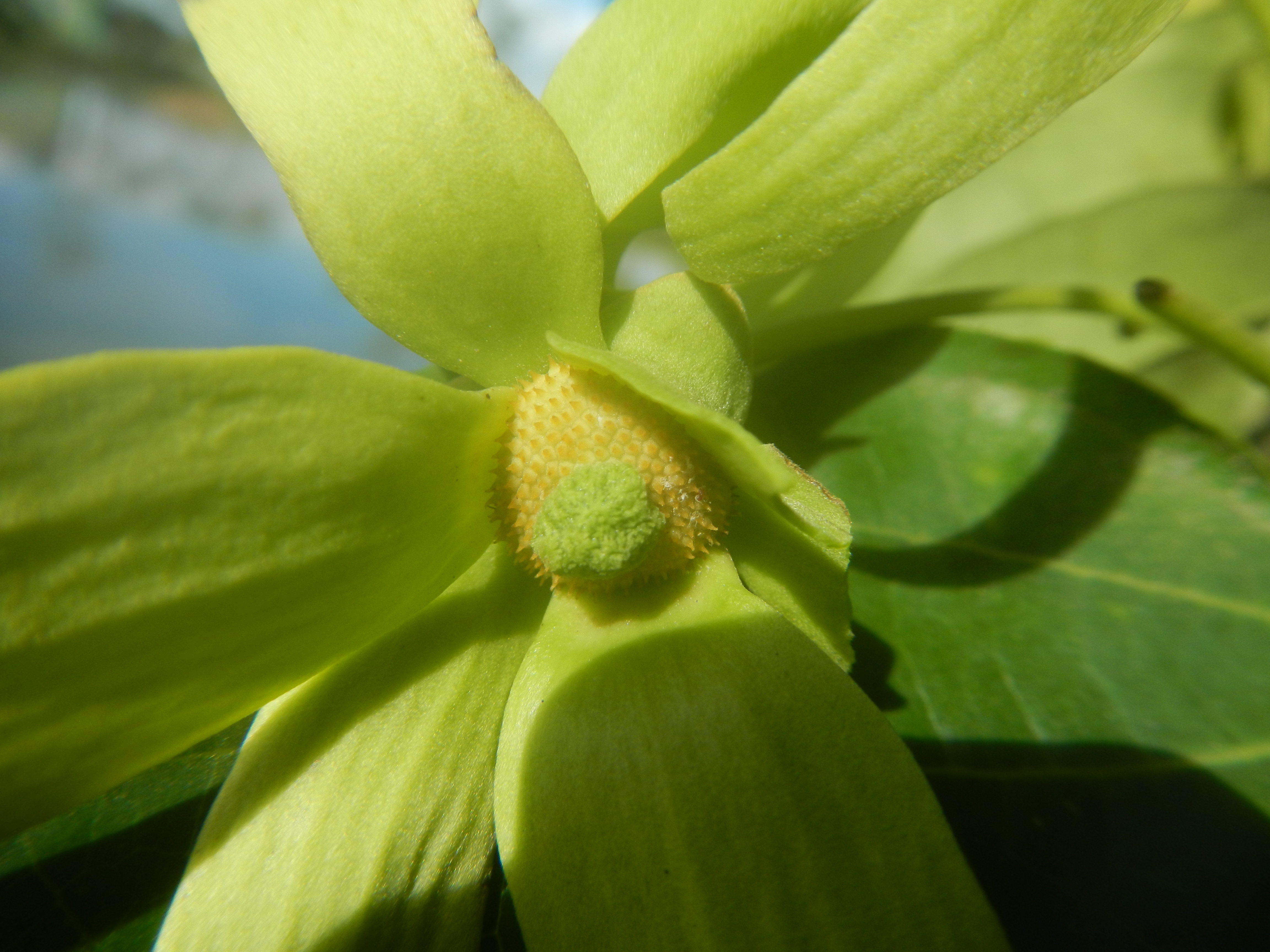 Ylang-ylang (Cananga odorata) Barangay Tilapayong 14°58'41"N 120°52'40"E Baliuag, Bulacan, Bulacan province, (accessed from Cagayan Valley Road, Baliuag-Pulilan-Guiguinto, Bulacan) Pan-Philippine Highway, also known as the Maharlika "Nobility/freeman" Highway or Asian Highway 26, Cagayan Valley Road (Note: Judge Florentino Floro, the owner, to repeat, Donor Florentino Floro of all these photos hereby donate gratuitously, freely and unconditionally all these photos to and for Wikimedia Commons, exclusively, for public use of the public domain, and again without any condition whatsoever).